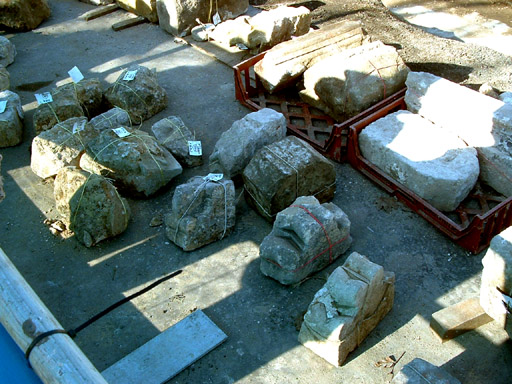 Bermondsey Abbey archaeological dig - details of the finds, 05 March 2006